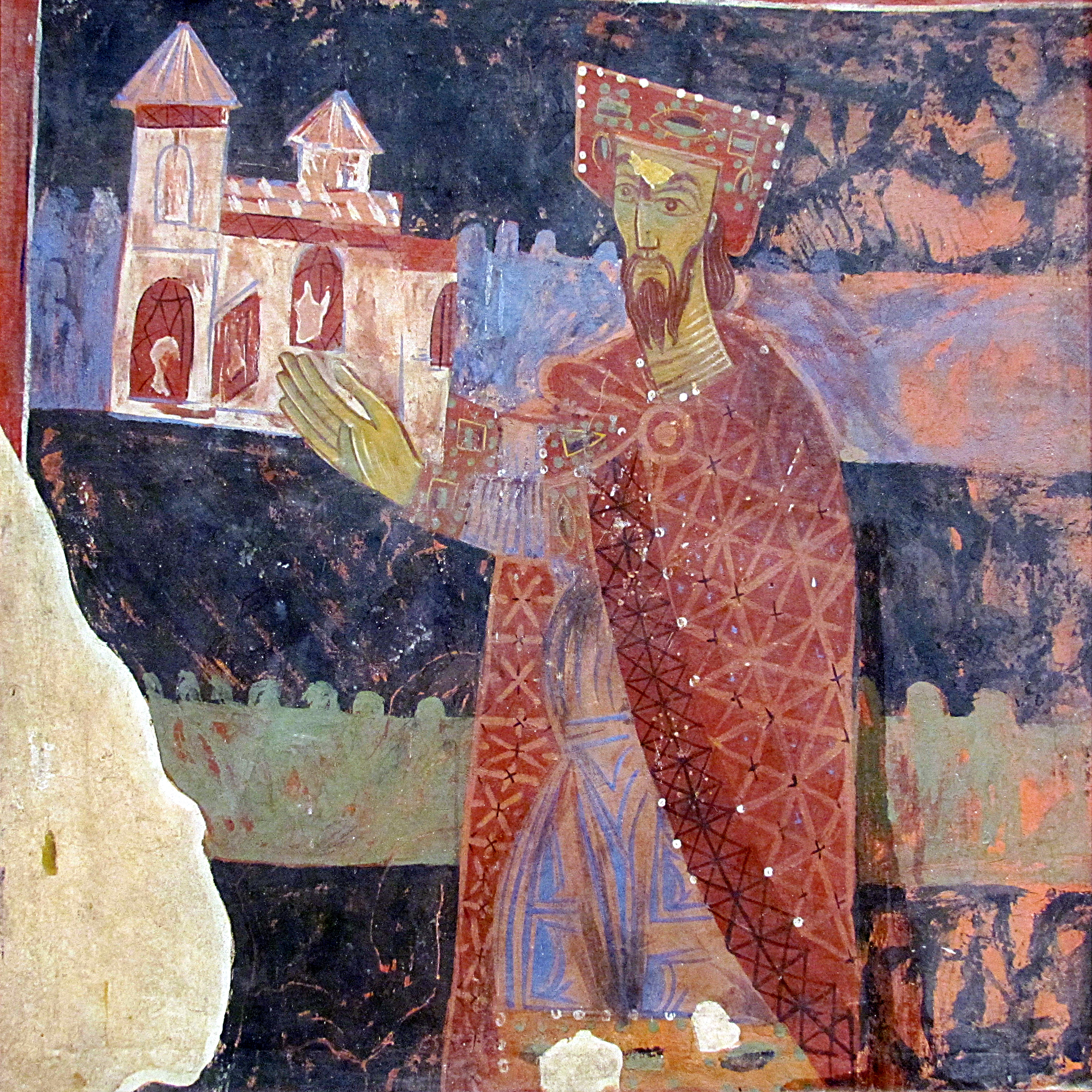 Copy of Ktetorial Portrait of Serbian King Mihailo Vojisavljević, the ruler of Dioclea, around 1080, Ston. National Museum of Serbia